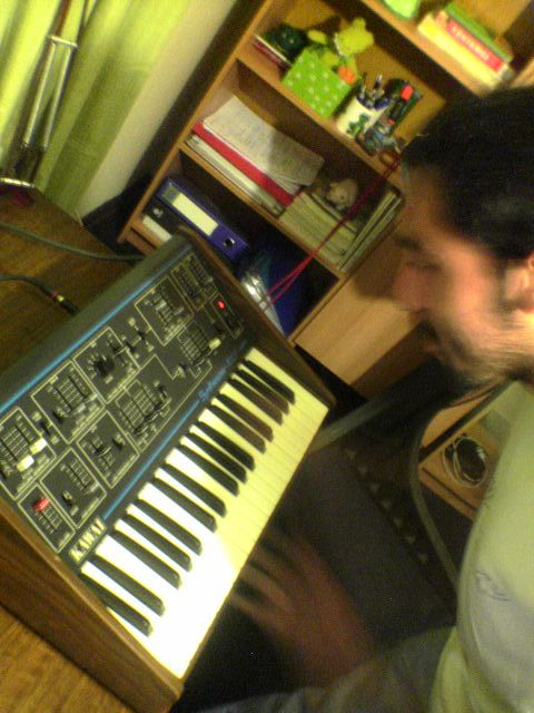 testing a Kawai Synthesizer 100f ... a single oscillator, but it could get interesting sounds